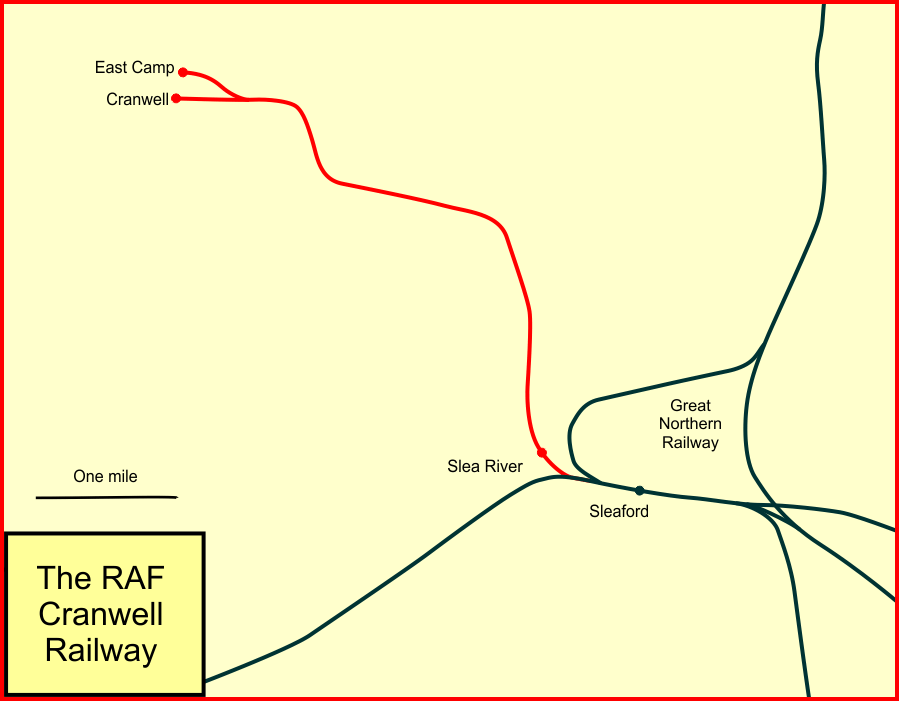 System map of the RAF Cranwell branch, Lincolnshire, England